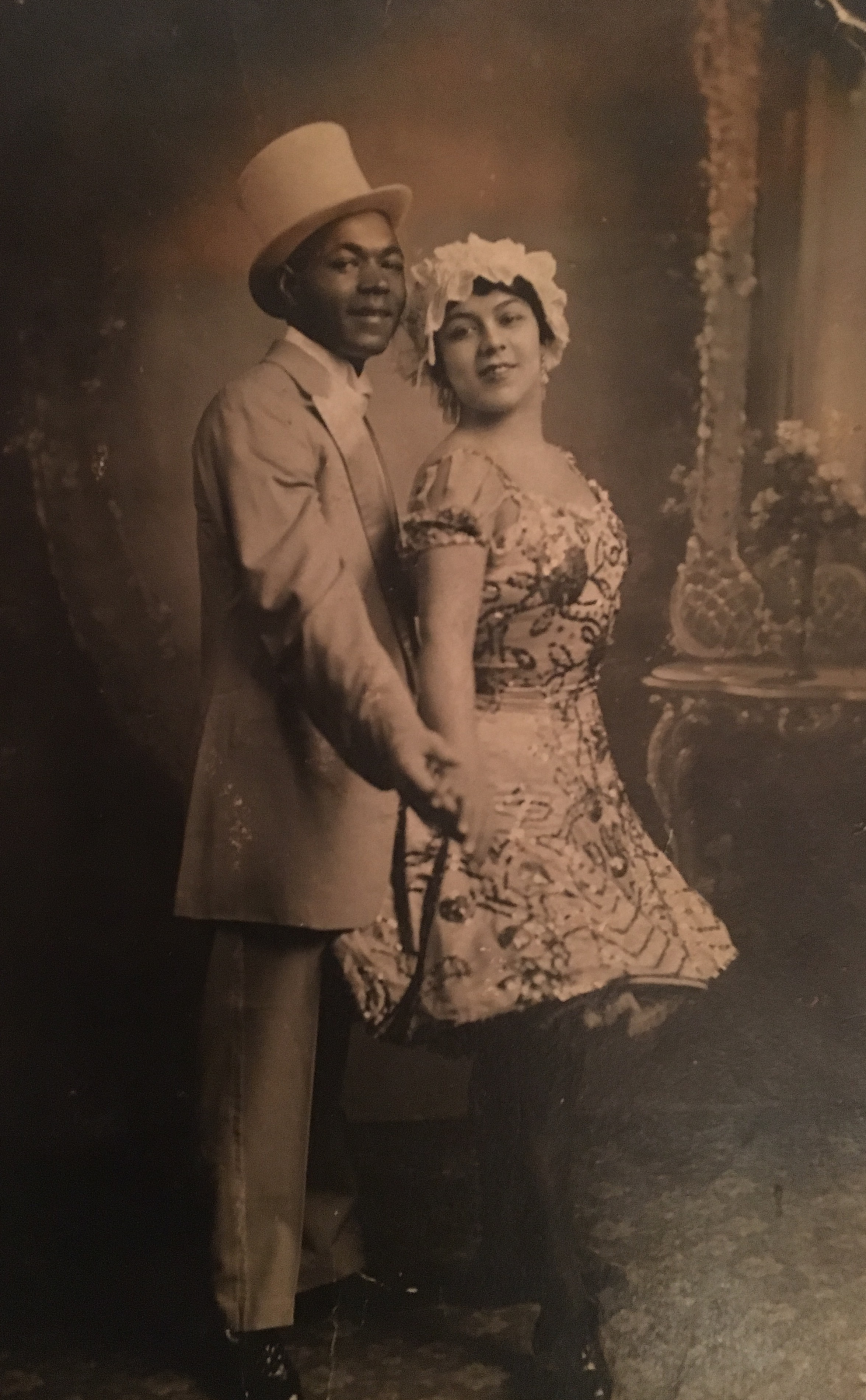 Sadie and Adolph Crawford, stage musicians